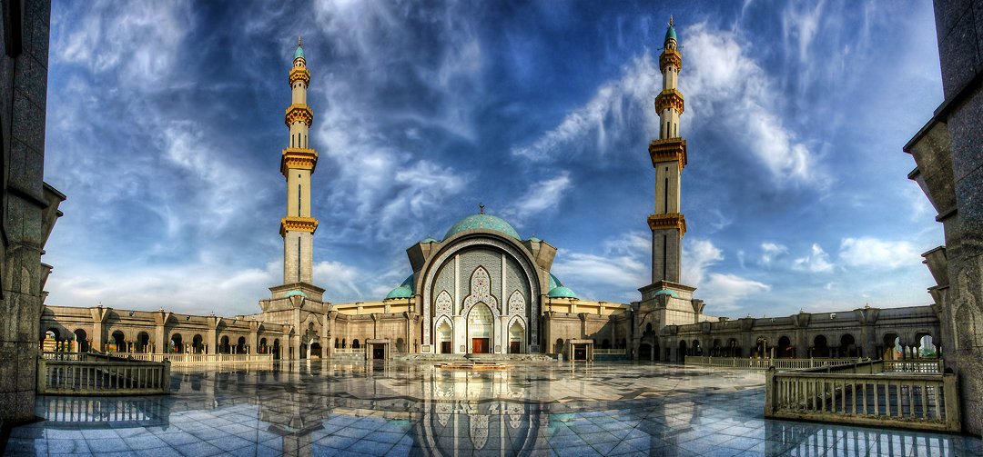 Panorama HDR 3 Manual Exposure Bracketing - EOS 40D - Photomatix 3 & PS4 - Canon 10-22mm - Date Taken: 24 April 2008 8:37am